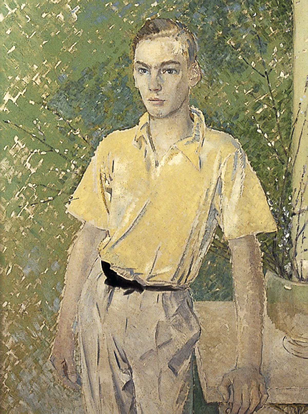 Philpot, Glyn Warren; Master Jasper Kingscote; Worthing Museum and Art Gallery